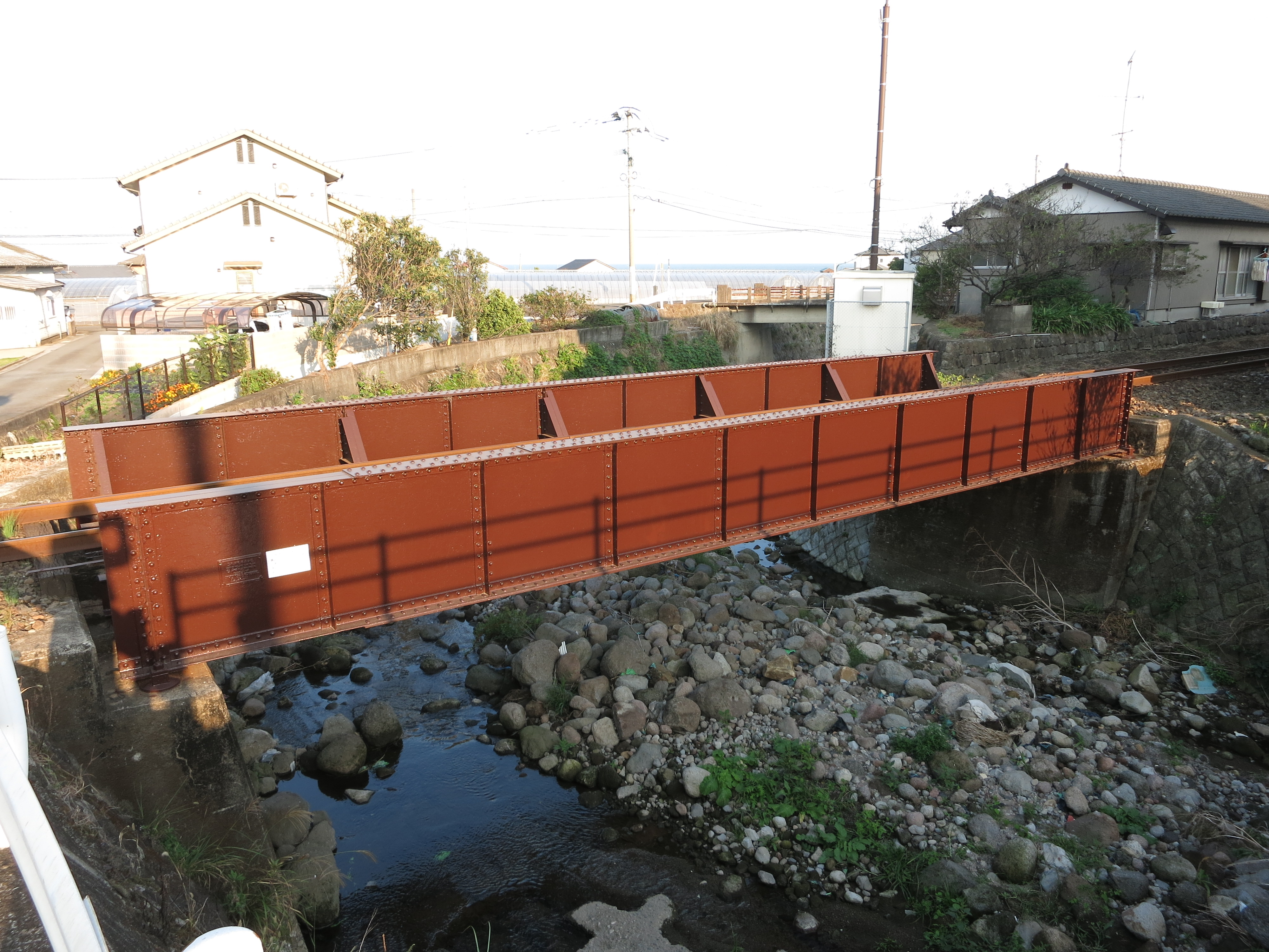 Girder bridge 1